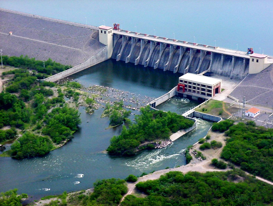 Embalse El Tunal en la provincia de Salta